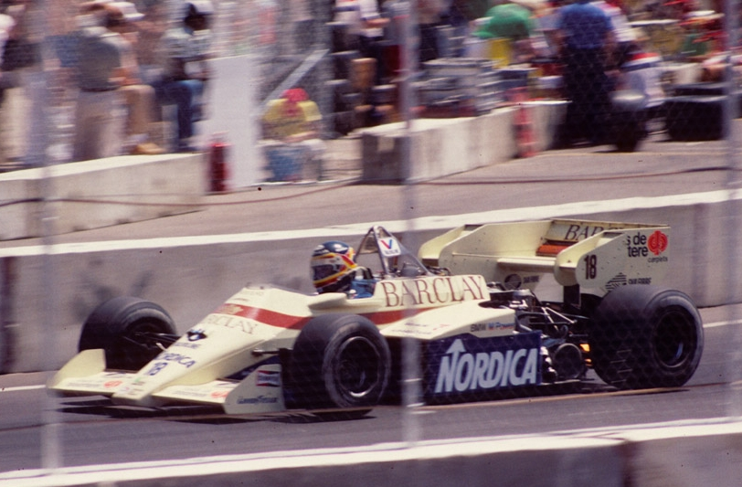 Thierry Boutsen, #18 Arrows-BMW spun out on Lap 55.